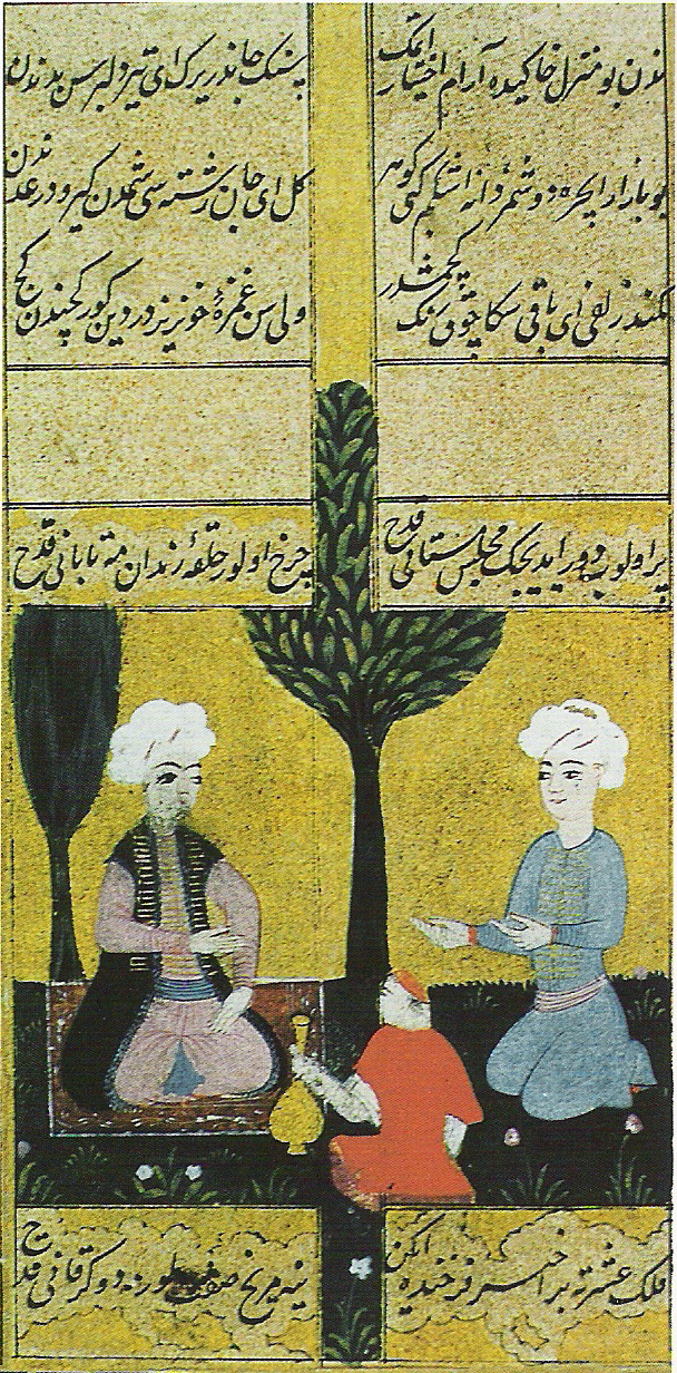 Source: Şentürk, Ahmet Atilla. Osmanlı Şiiri Antolojisi. p. 473. ISBN 975-08-0163-6.